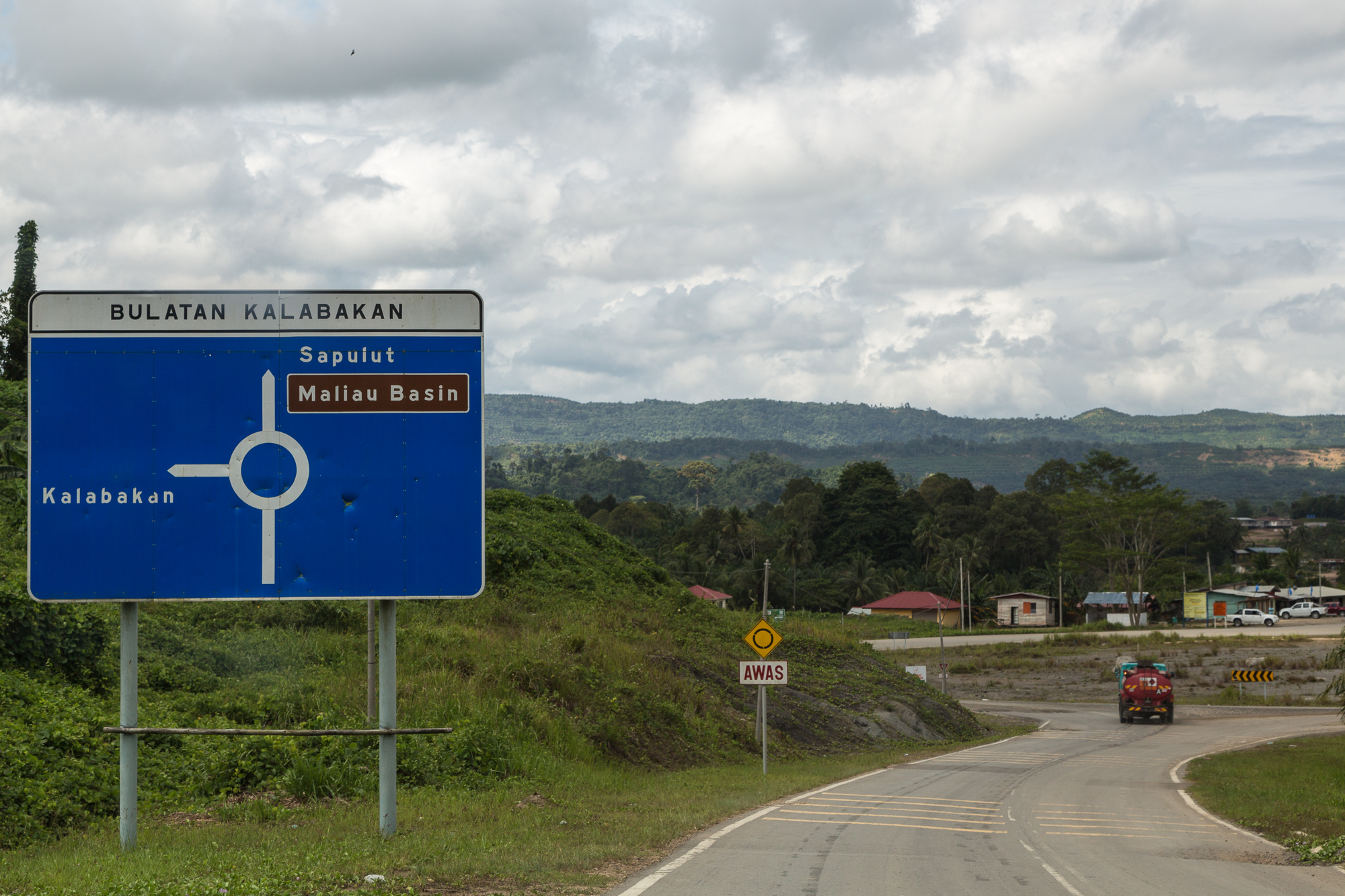 Kalabakan, Sabah: Roundabout at the Tawau-Kalabakan-Road at Pekan Kalabakan